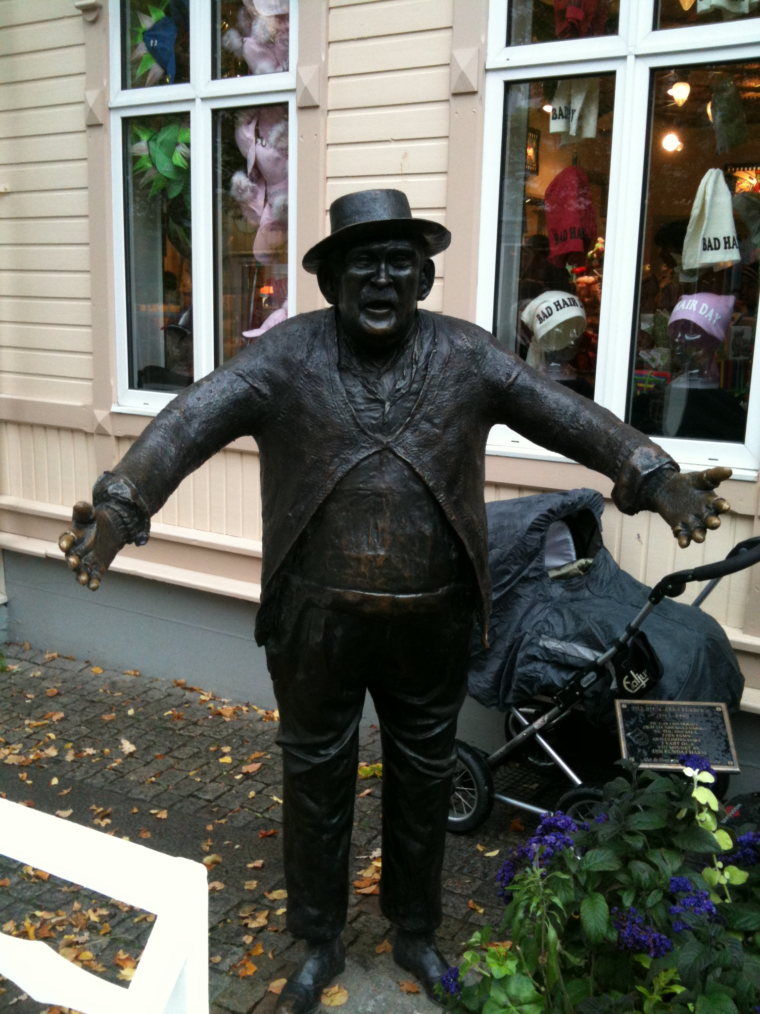 A statue picturing the Swedish comedian Sten-Åke Cederhök at Liseberg in Gothenburg, Sweden.